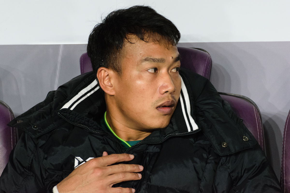 Chatchai Budprom at the Asian Cup 2019